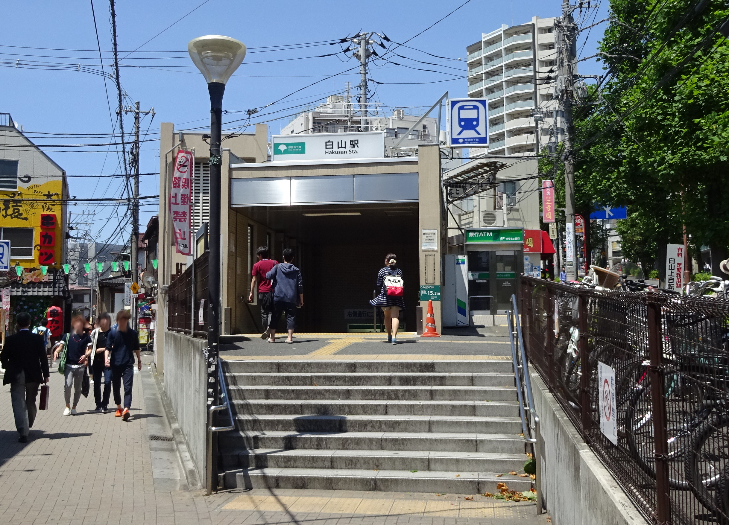 Exit A3 of Hakusan Station in Tokyo